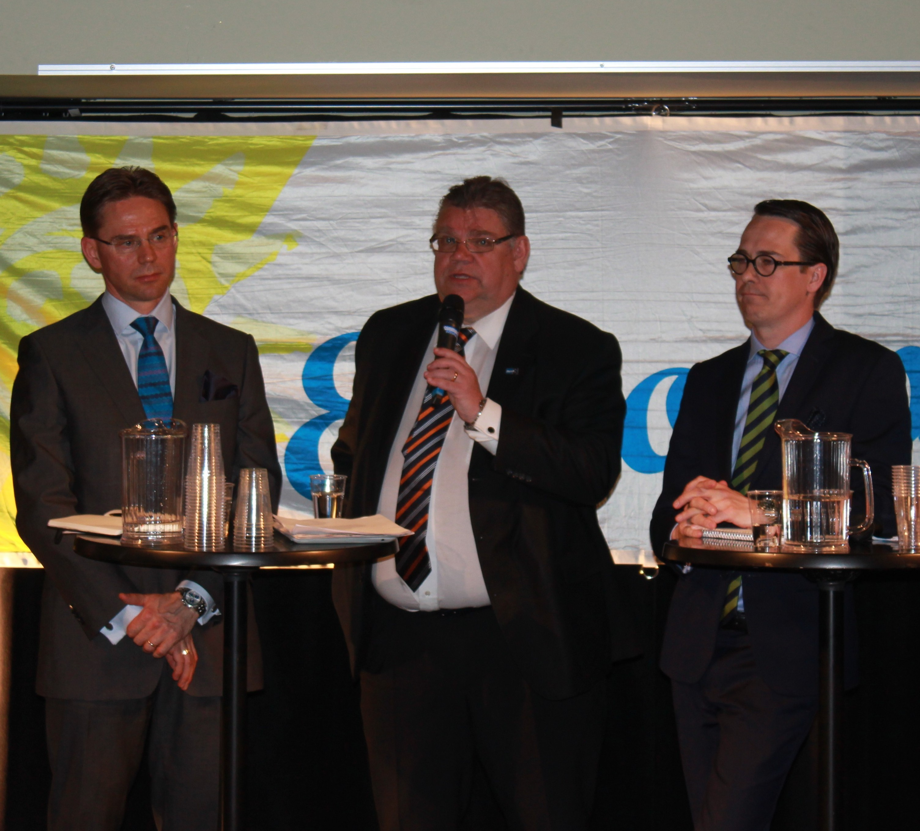 Jyrki Katainen (chairman of the National Coalition Party), Timo Soini (chairman of the Finns Party) and Carl Haglund (chairman of the Swedish People's Party) in a debate in Lasipalatsi, Helsinki on 9 May 2014, ahead of the 2014 European Parliament election.